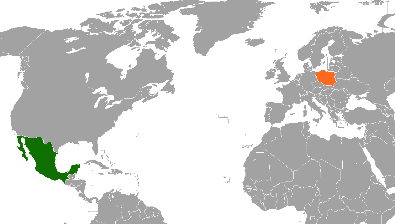 Map showing locations of Mexico and Poland